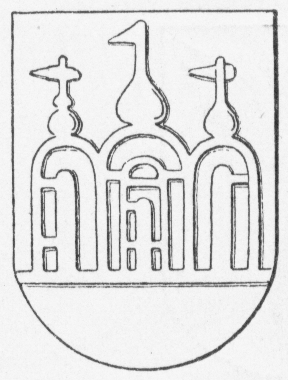 Coat of arms of Nørlyng Herred (Hundred), a former administrative subdivision of Denmark, 1610 version. Illustration from the article Om danske By- og Herredsvaaben written by Anders Thiset and published in Tidsskrift for Kunstindustri 1893-1894.